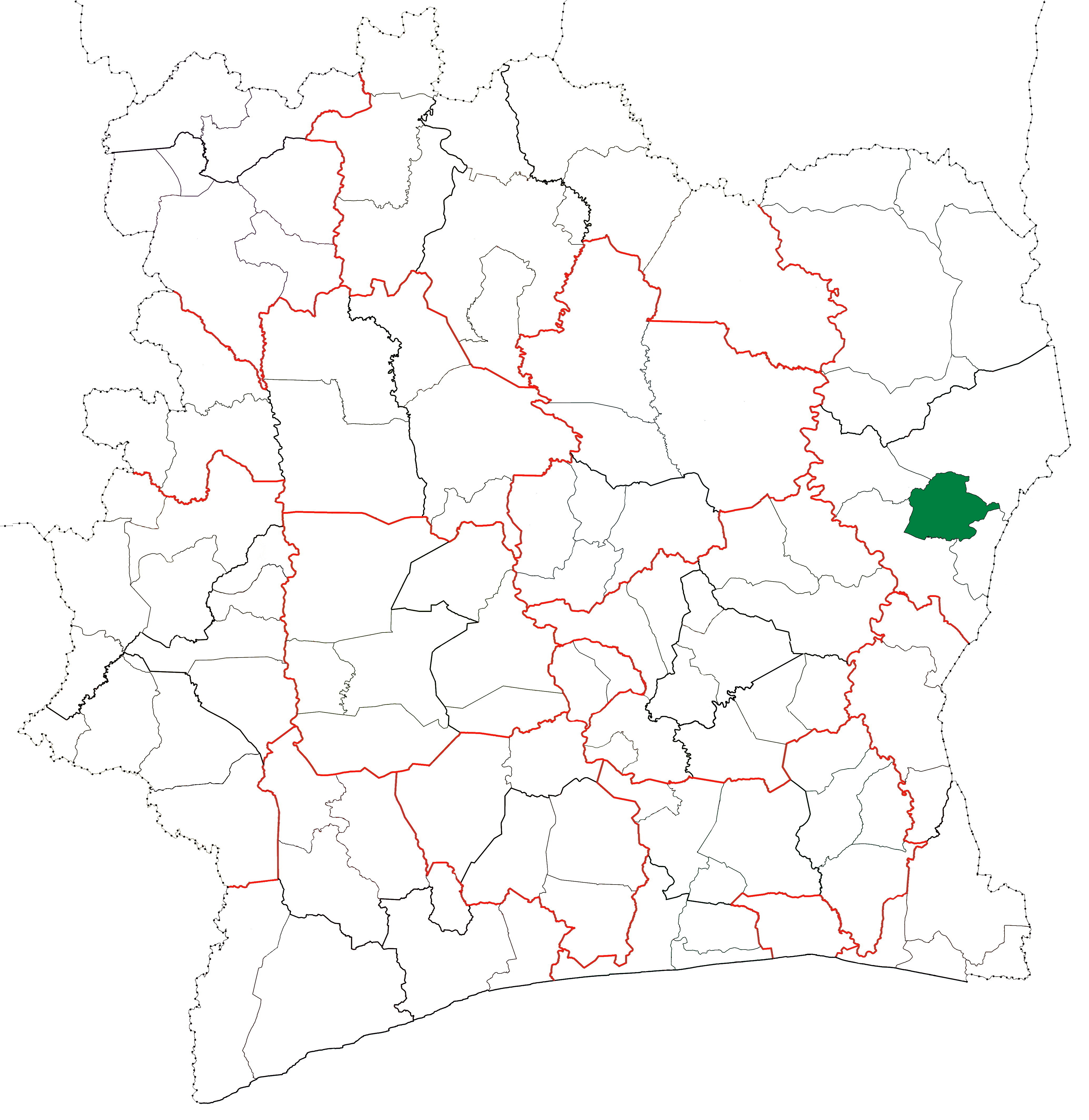 Locator map for Tanda Department in Côte d'Ivoire.